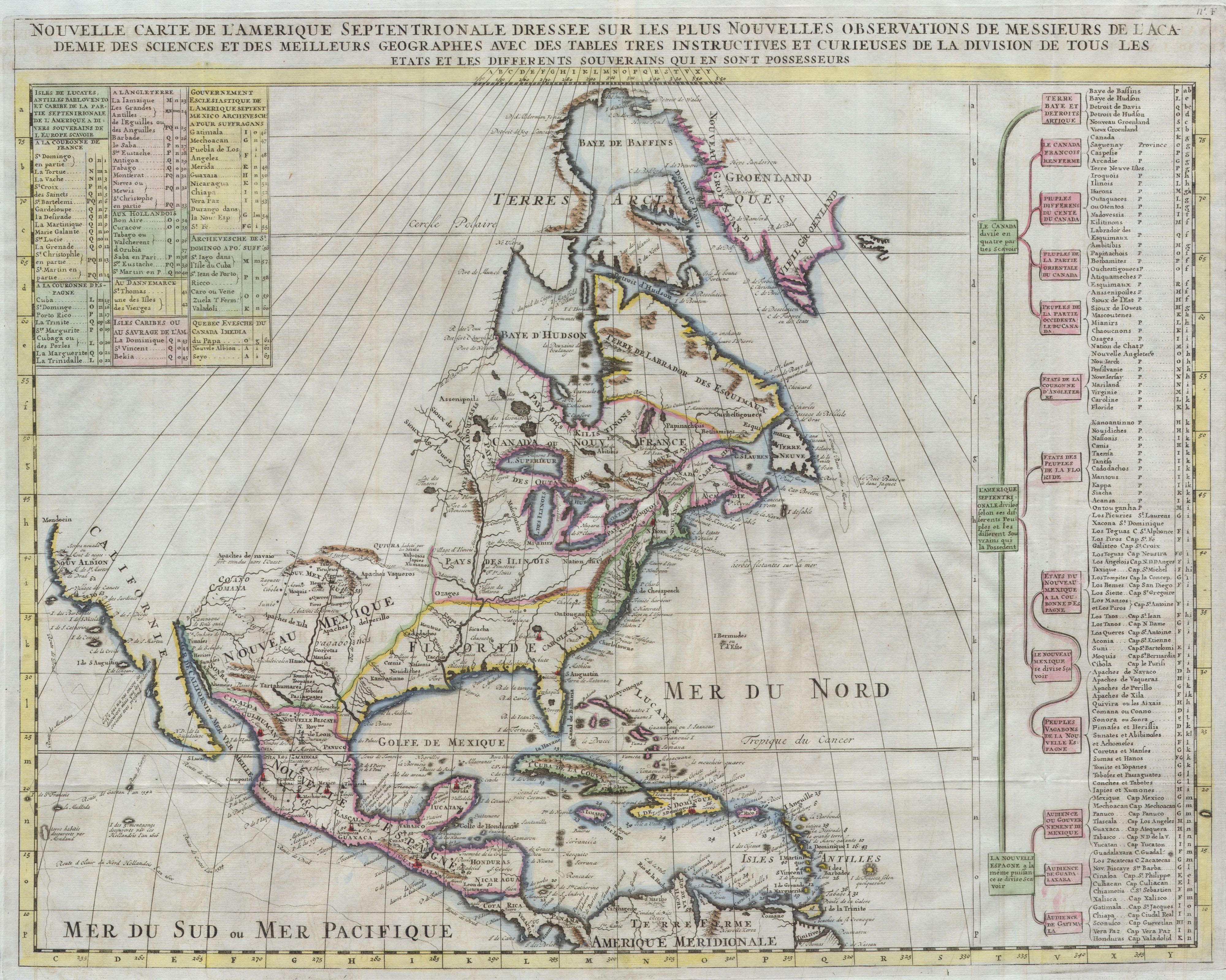 Offered here is a stunning map of North America published by Henry Chatelain for the 1720 edition of his seminal Atlas Historique. Offers some of the first well developed cartography of the Great Lakes region and considerable detail along the eastern seaboard. Indian tribes, Spanish missions, and explorer routes are all indicated with varying degrees of accuracy.Includes references to several mythical kingdoms and cities including Quivra (Quivira) just west of the Mississippi, and Cibola in New Mexico. Both Quivira and Cibola are among the “Seven Cities of Gold” sought after by early Spanish explorers in the North America. Legend tells that the cities were founded by bishops who fled the Moorish invasion of Merida, Spain, in 1150. Although numerous explorers sought the mythical cities, including Vásquez de Coronado, they were never found.This is also one of the first 18th century maps to question the myth that California was an island. Though many claim that this map depicts California firmly attached to the mainland, a close examination of Sea of Baja, shows that Chatelain chose not to close the gulf at the northern extreme, thus leaving the “island theory” question open.